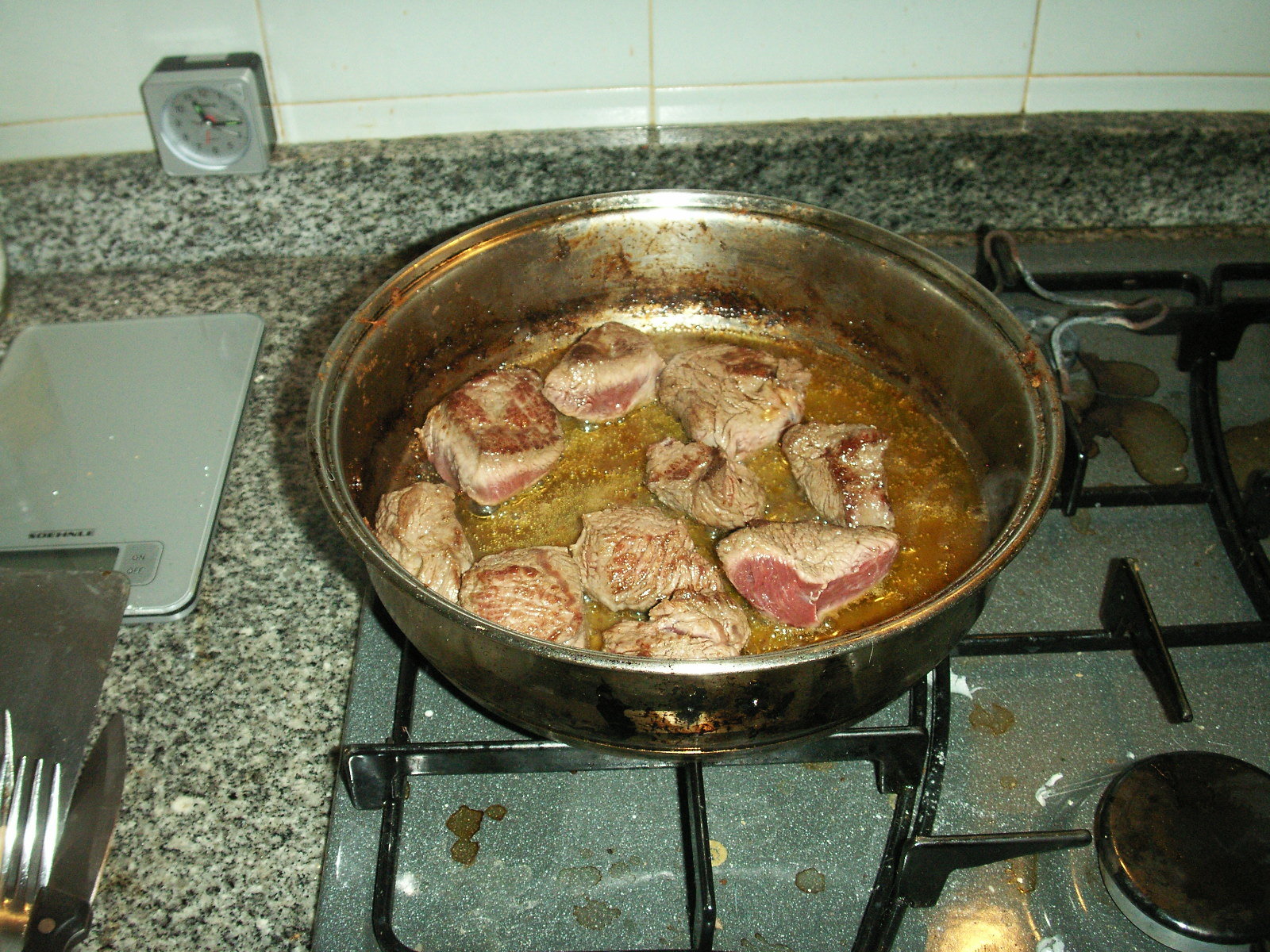 Beef bourguignon. Burning lightly